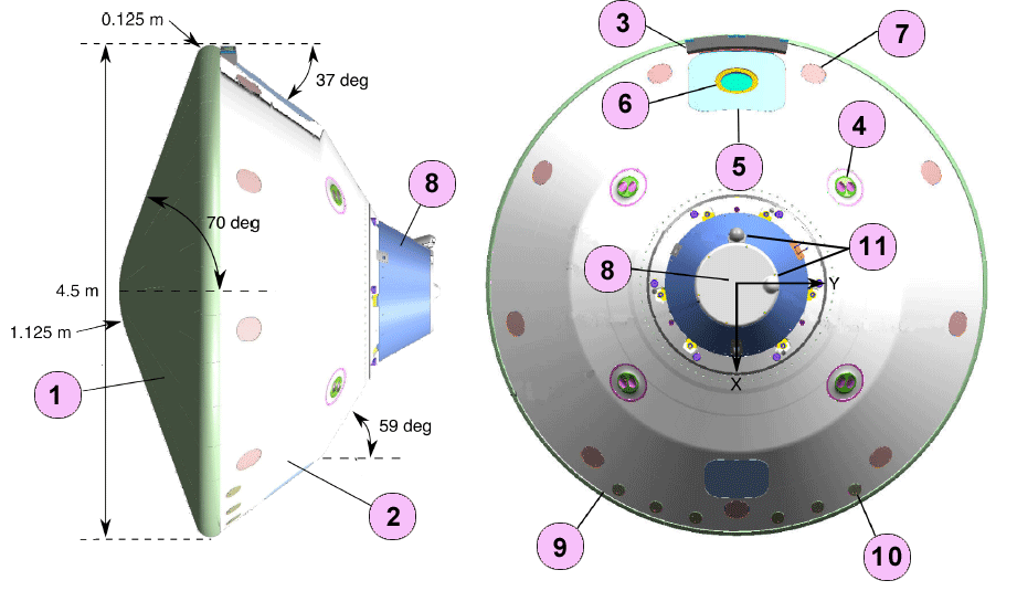 Mars Science Laboratory Aeroshell